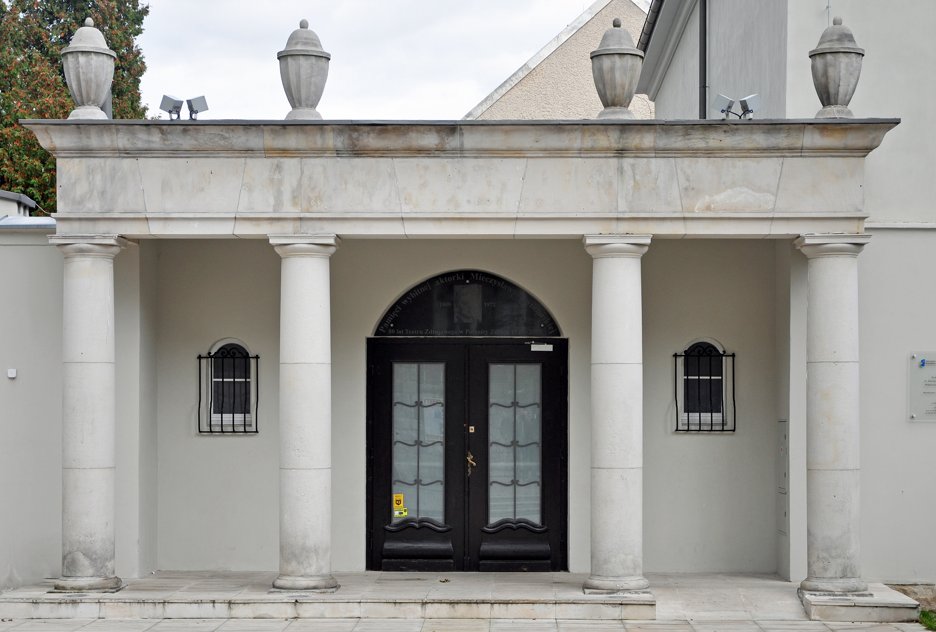 Theatre in Polanica-Zdrój